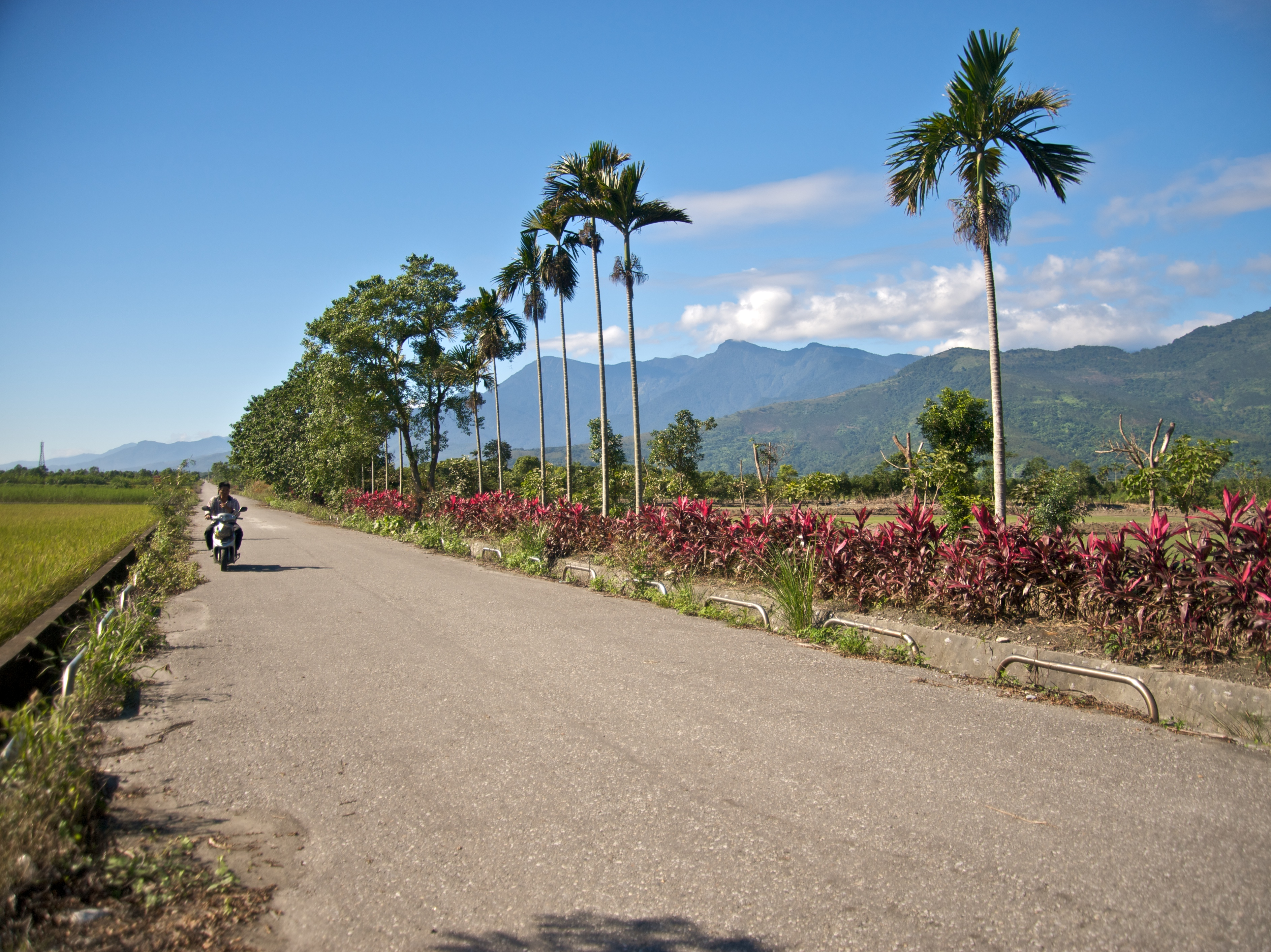 A farm road in Hualient County, Taiwan, with the Coastal Mountain Range in the background. This photo was taken on Zhongxiao Street in Shoufeng Township, Hualien.